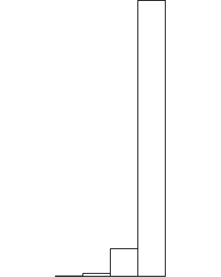 Four decades: 10, 1, .1, .01.